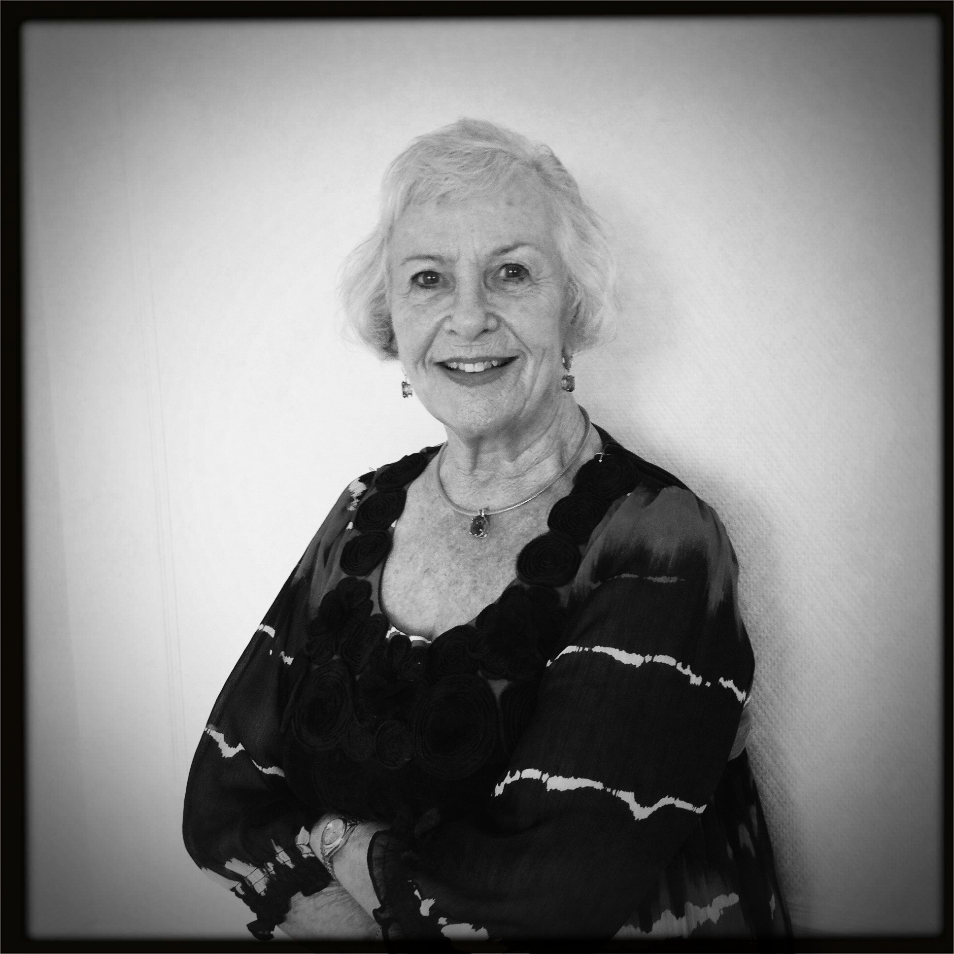 A hipstamatic portrait of Luxembourg actress and dancer Germaine Damar by François Besch